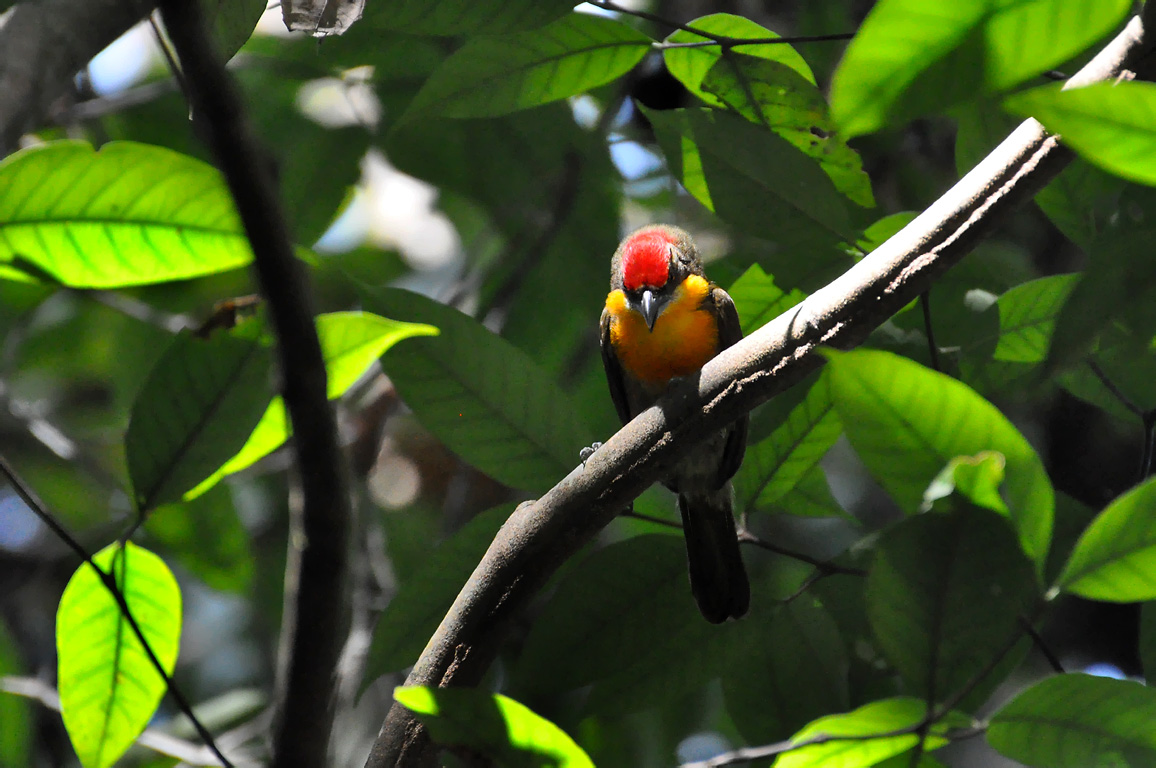 Capito aurovirens male photographed in the Amazon, Brazil, in November 2010.